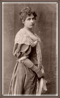 Constance Lloyd (1859-1898), wife of Oscar Wilde